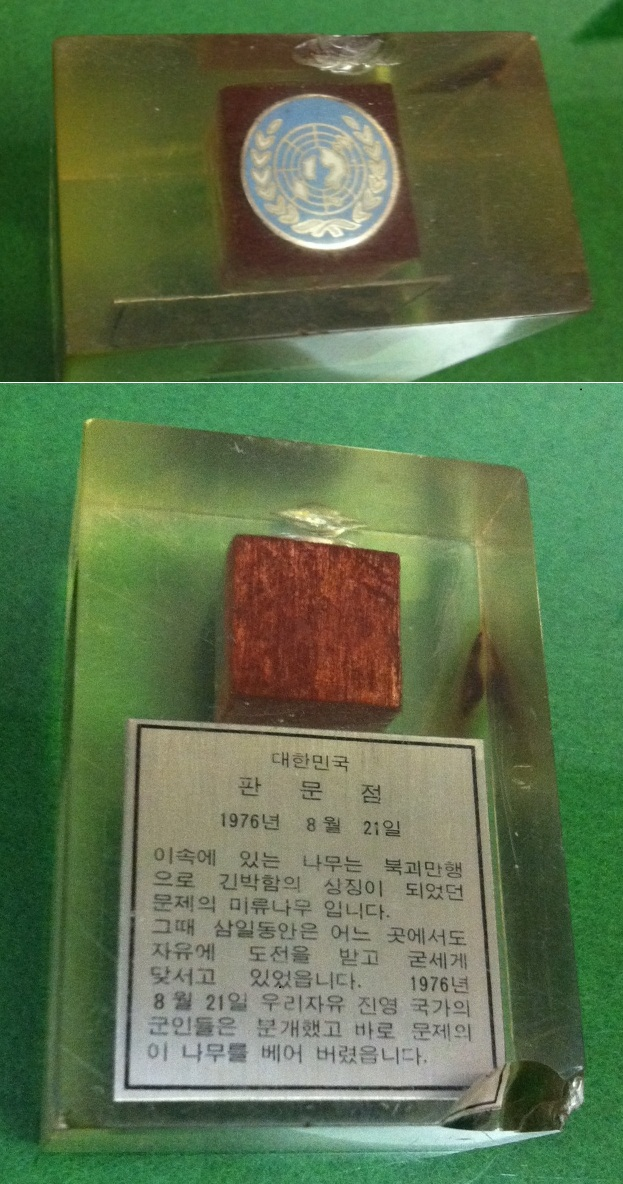 A memorabilia includes a chip of the poplar tree which was cut down by Operation Paul Bunyan. Top and front view.